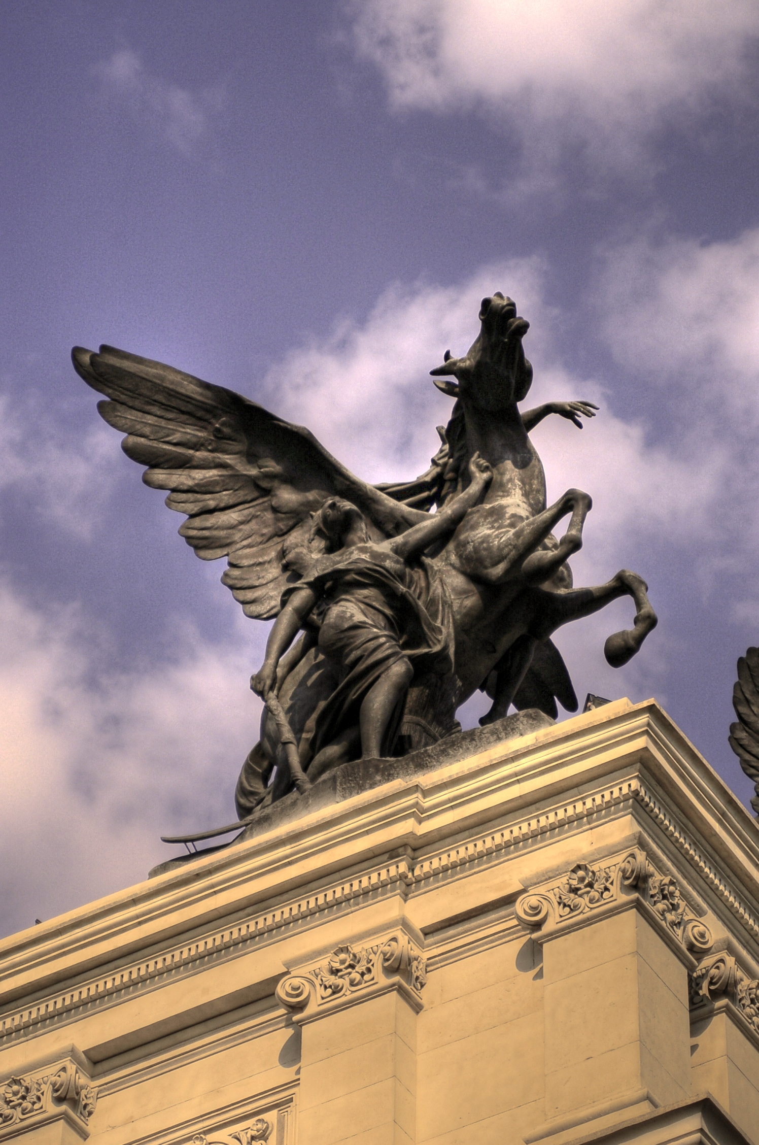 Allegorical sculpture representing the progress of Agriculture and Industry. It's one of the three parts of a sculptural group named La Gloria y los Pegasos ("The Glory and the Pegasus") at the top of the Spanish Ministry of Agriculture, Fisheries and Food headquarters in Madrid, that symbolizes Progress. The group was designed by Agustí Querol Subirats (1860–1909), scupted in Carrara marble in 1905, and replaced in 1976 by a bronze replica by Juan de Ávalos. The original marble sculptures were restored and placed at two squares in Madrid in 1995 and 1998. The image shows a female figure as a symbol of Agriculture, holding on a plough (right hand) while taking the reins of the winged horse, ridden by a male figure representing Industry (not shown).